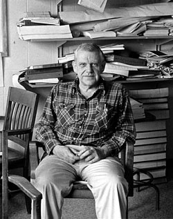 Henry Stommel, pictured in 1979 in his Clark lab office.